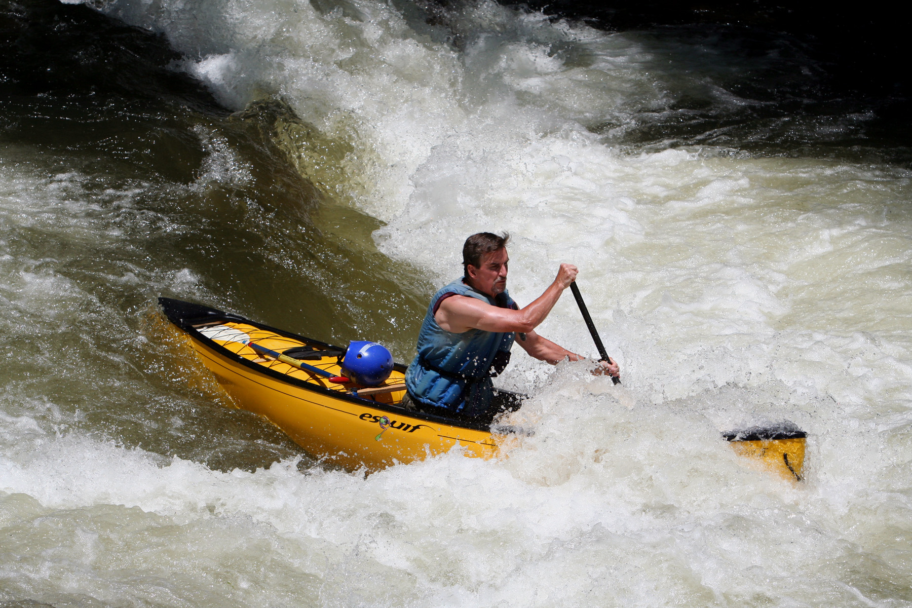 Canoeist on the Nantahala River, North Carolina, USA original flickr description: "A nice run, 3 in a series of 4."